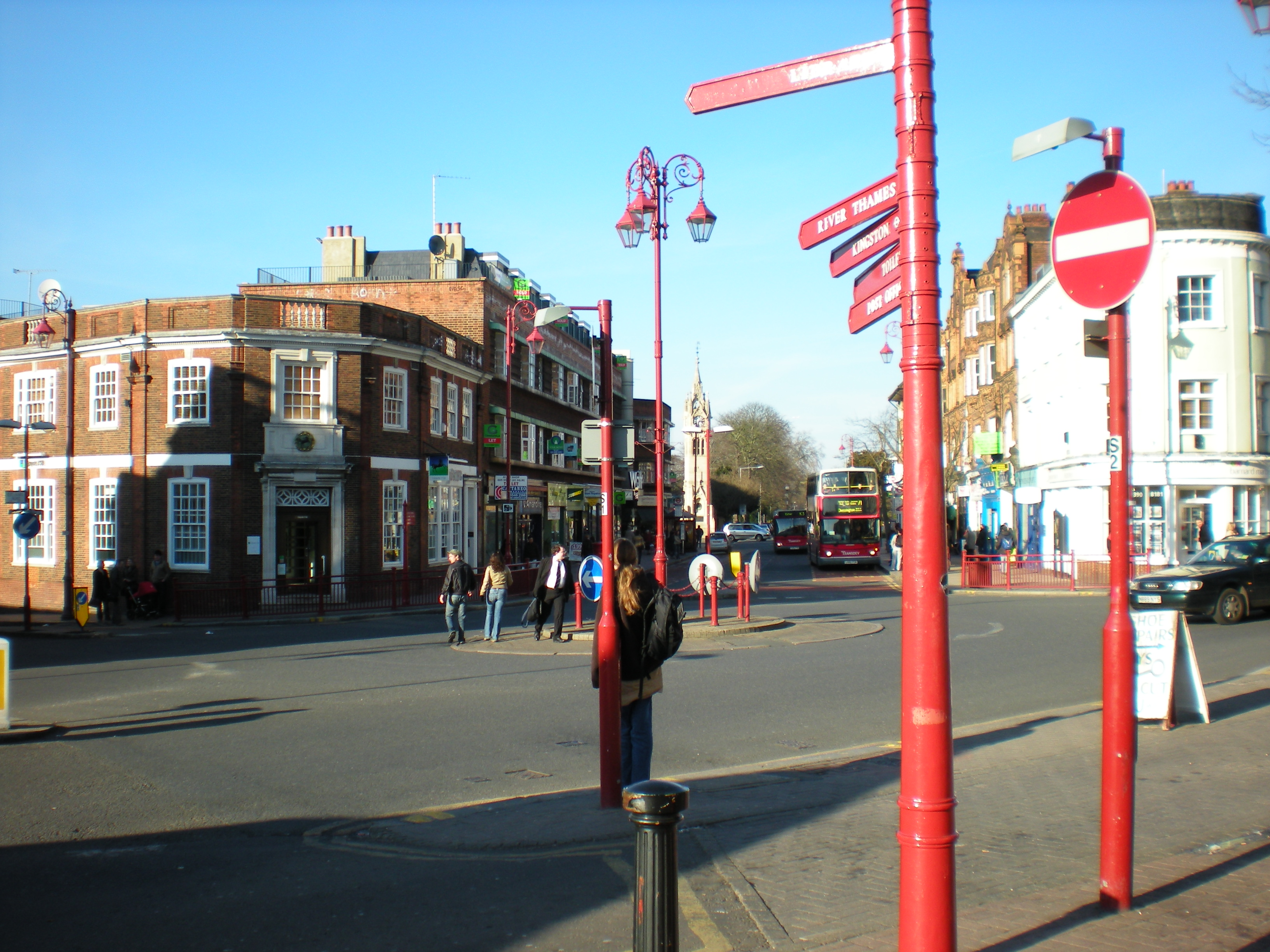 Surbiton